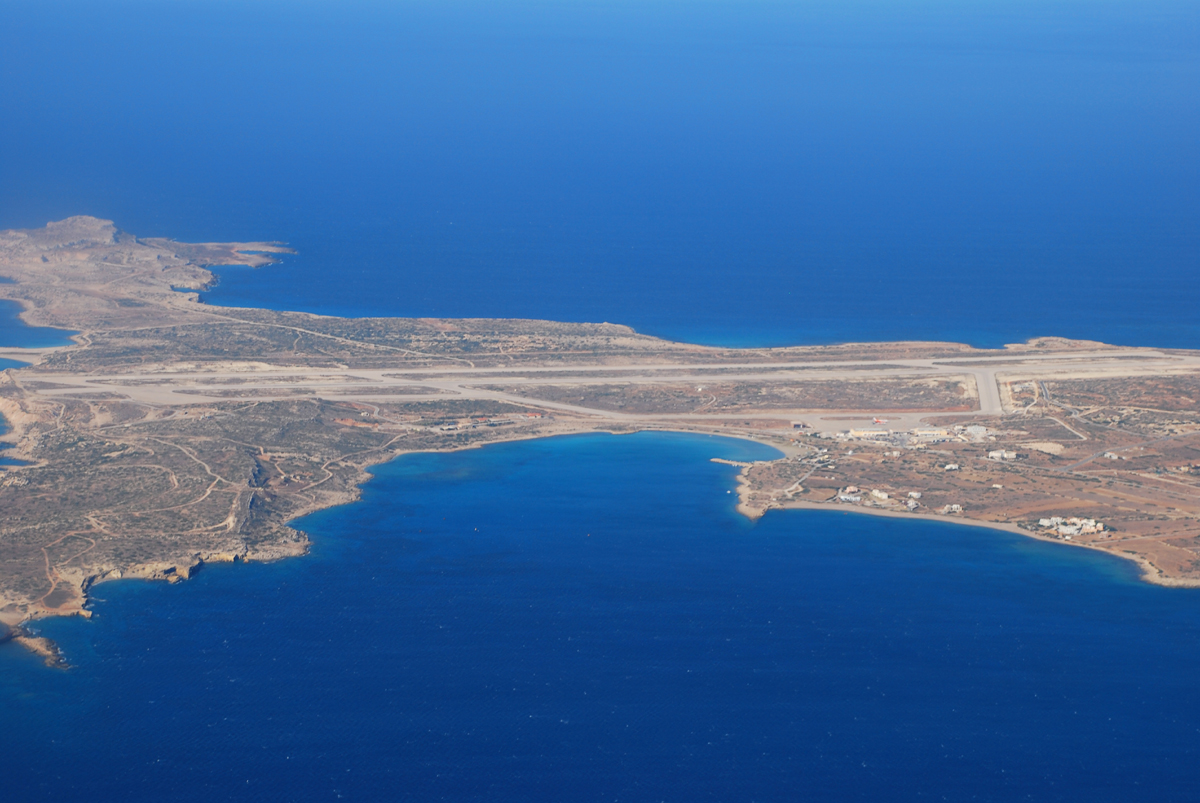 Karpathos Airport (ICAO: LGKP; IATA: AOK) seen from Lauda Air Boeing 737-8Z9 OE-LNT during downwind on visual approach for runway 30.